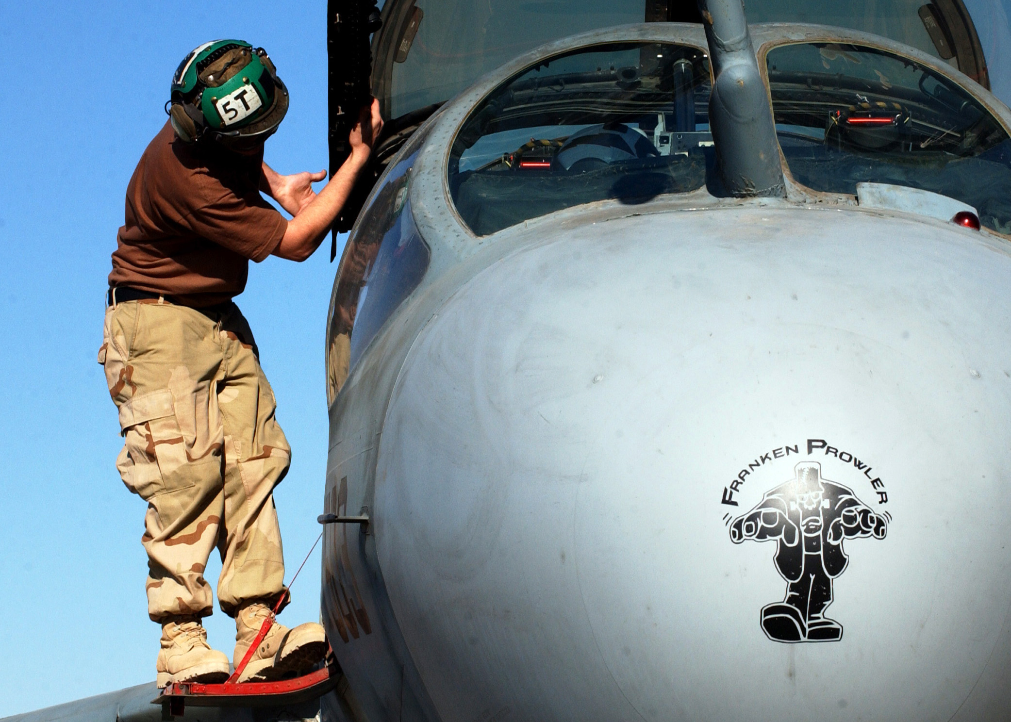 A Sailor assigned to the "Shadowhawks" of Electronic Attack Squadron One Four One (VAQ-141), performs a preflight check on one of his squadron's EA-6B Prowlers at Al Asad Air Base. A detachment of the "Shadowhawks" is stationed at Al Asad flying missions in support of the Global War on Terrorism. VAQ-141 is assigned to Carrier Air Wing Eight (CVW-8), currently embarked aboard USS Theodore Roosevelt (CVN 71).